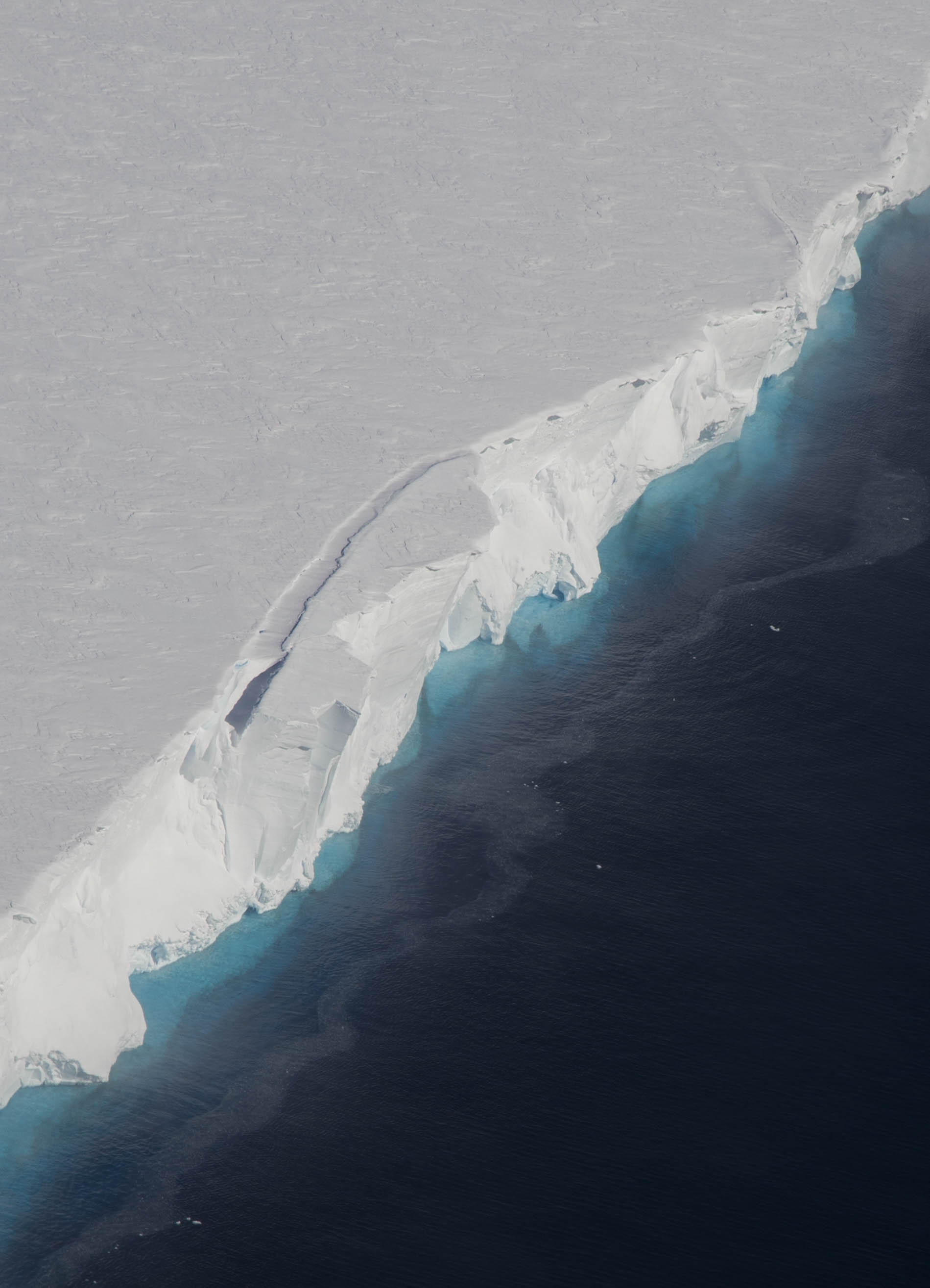 Edge of the Dotson Ice Shelf (NASA/Jeremy Harbeck)